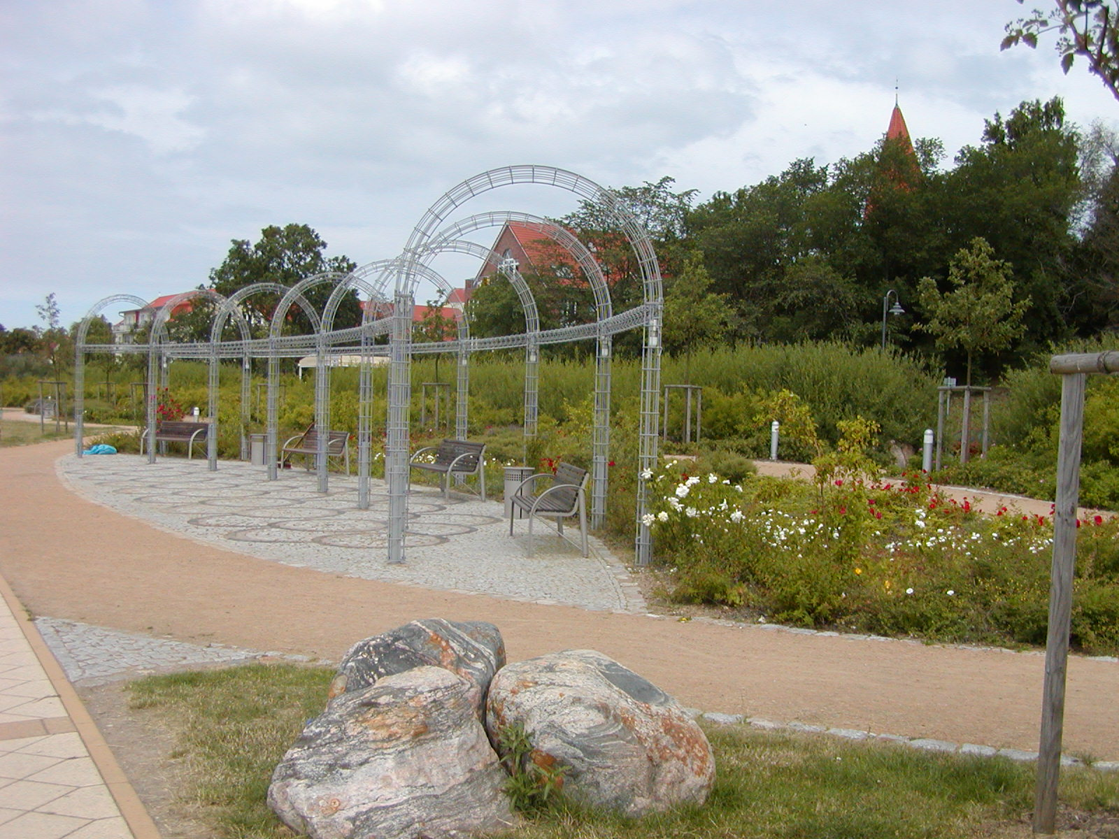 Promenade in Rerik, Mecklenburg-Vorpommern, Germany